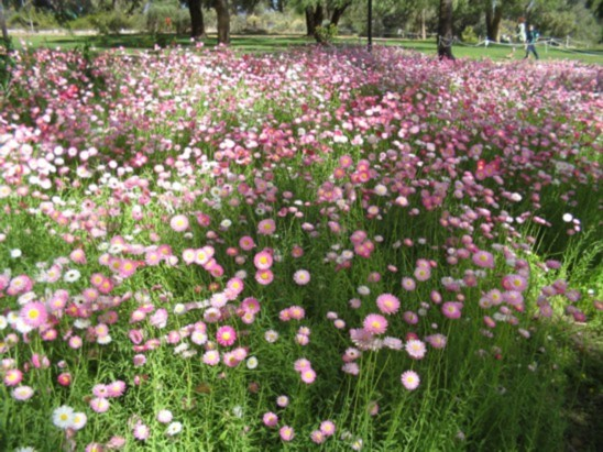 The Wildflowers are blooming everywhere in Kings Park during spring.